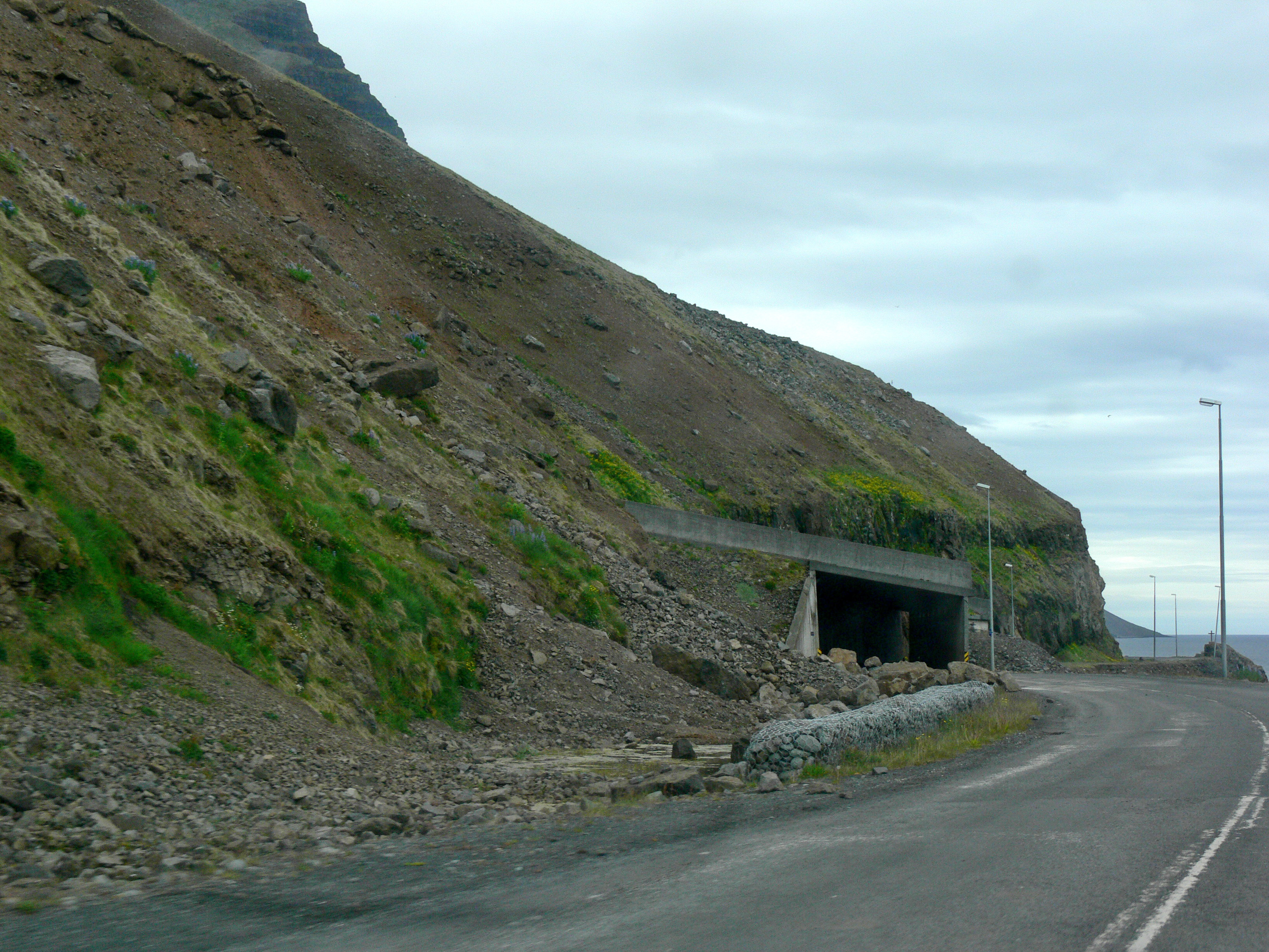 the old road around the mountain of Arafjall.